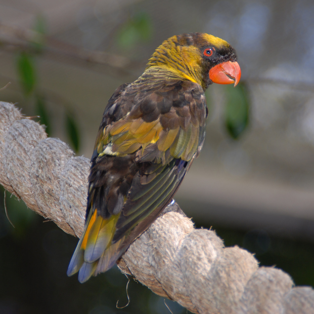 Dusky Lory at Busch Gardens (Aviary), Tampa, Florida, USA.